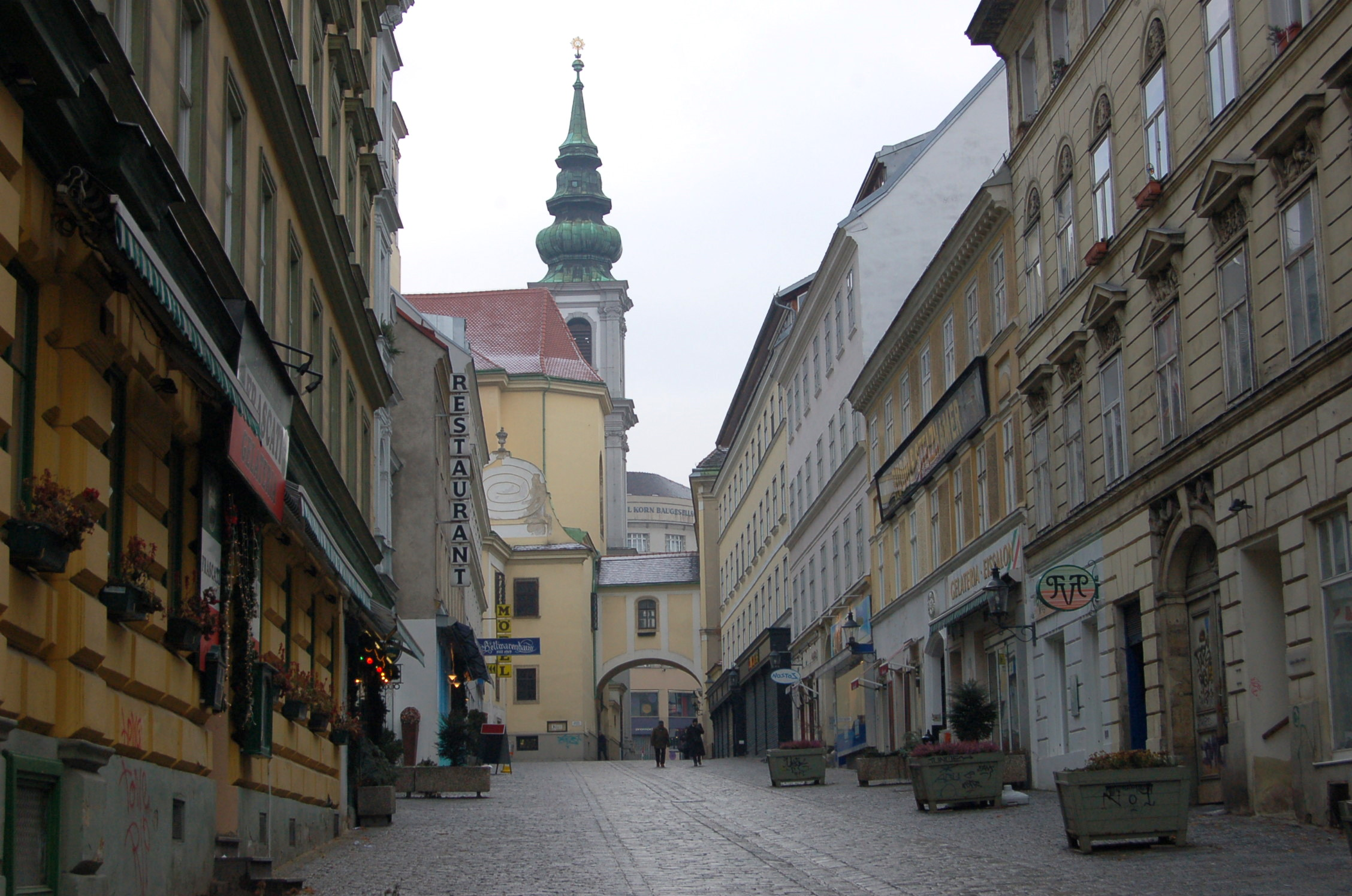 Barnabitengasse in Vienna's 6th district - Mariahilf